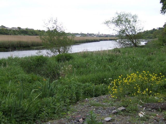 River Boyne, west of Drogheda The spire of St. Peter's cathedral is just visible in the distance.